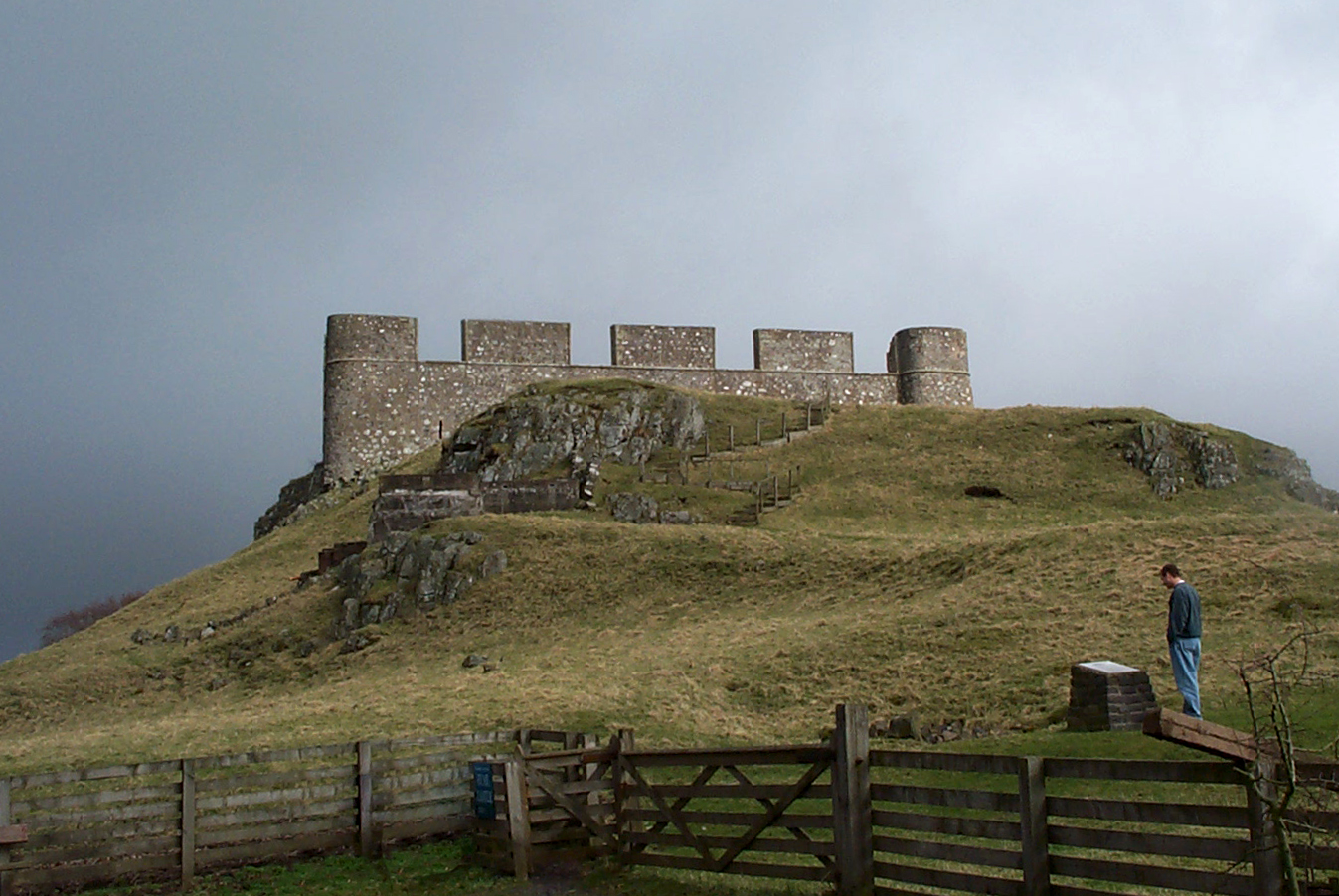 Hume Castle taken March 23, 2001 by Greg Hume